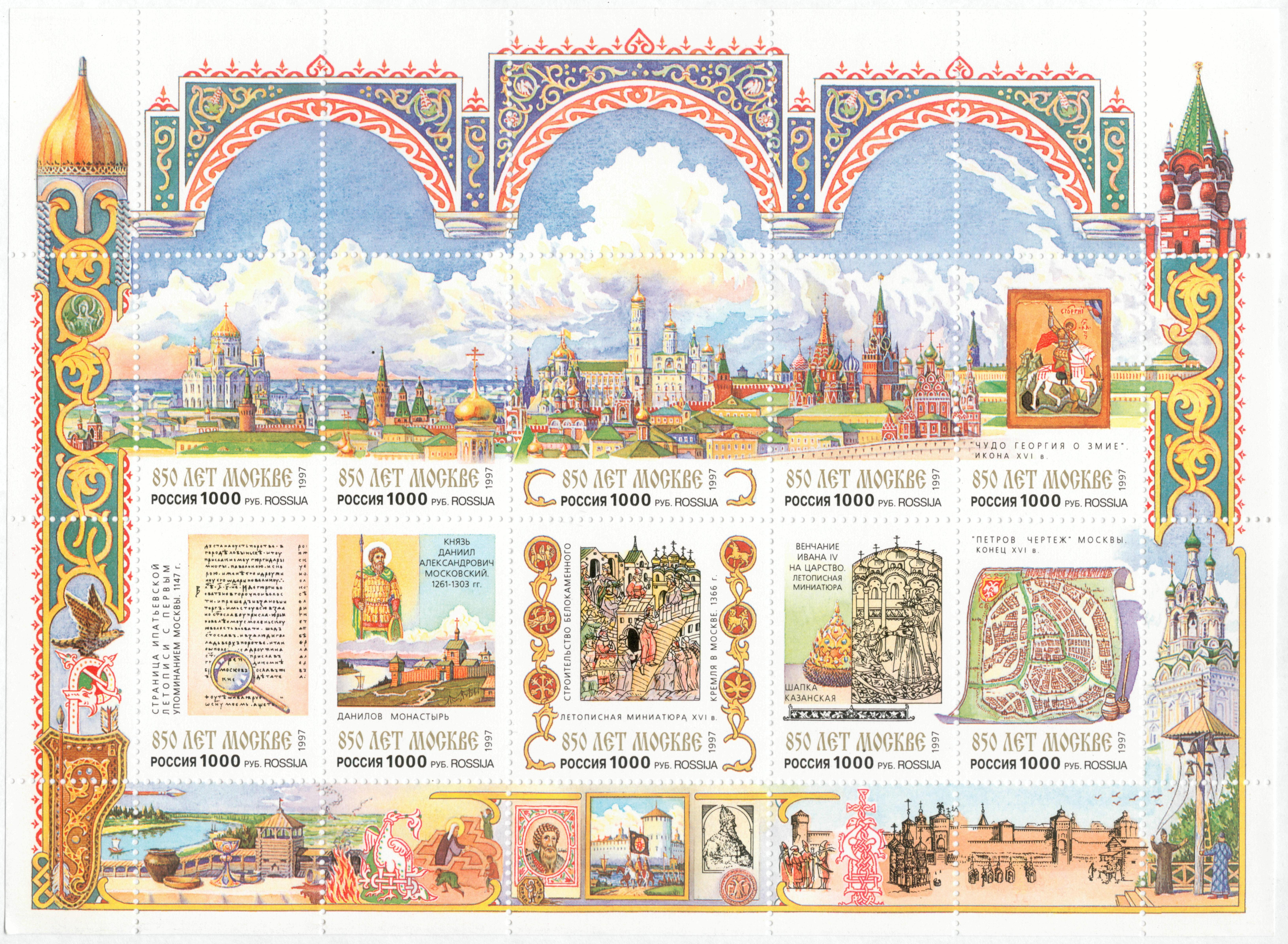 Stamps of Russia. The 850th anniversary of Moscow (end of series). Historical Moscow, 1997